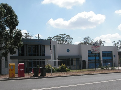 Modern fire station in Huntingwood, NSW